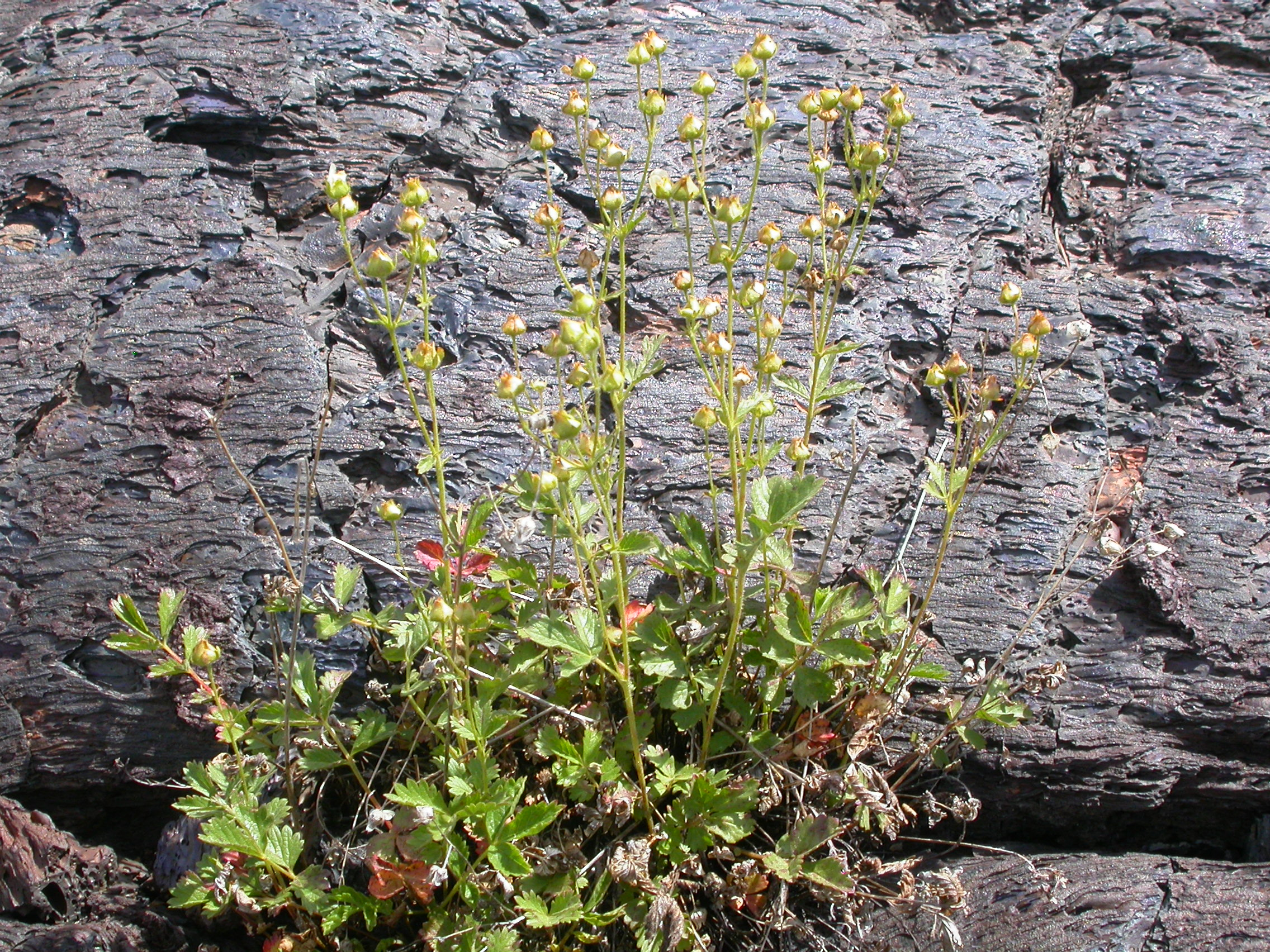 Sticky cinquefoil is most common on basement rock growing from crevices.